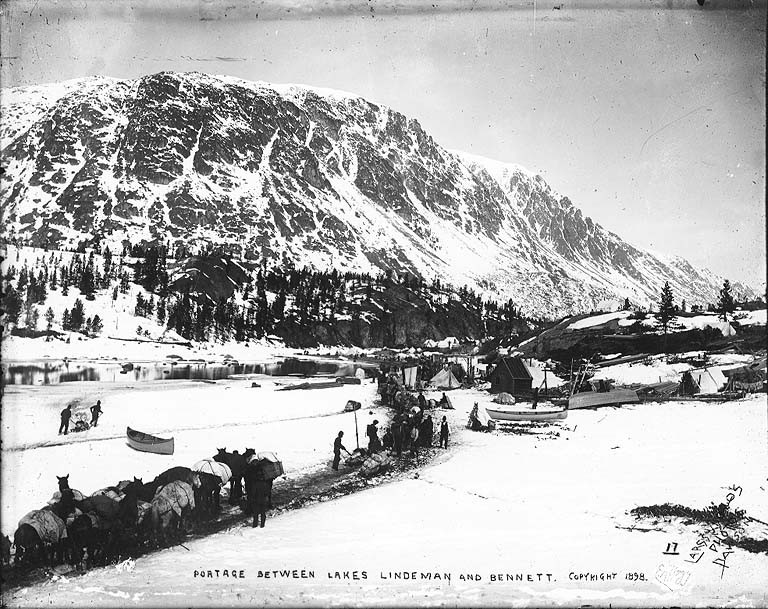 Caption on image: "Portage between Lakes Lindemann and Bennett. copyright 1898" Original photograph by E.A. Hegg 17C; copies by Larss and Duclos . No 17 appears in lower right corner . Klondike Gold Rush. Subjects (LCTGM): Rivers--British Columbia; Tents--British Columbia; Canoes--British Columbia; Pack animals--British Columbia; Shipping--British Columbia Subjects (LCSH): One Mile River (B.C.)